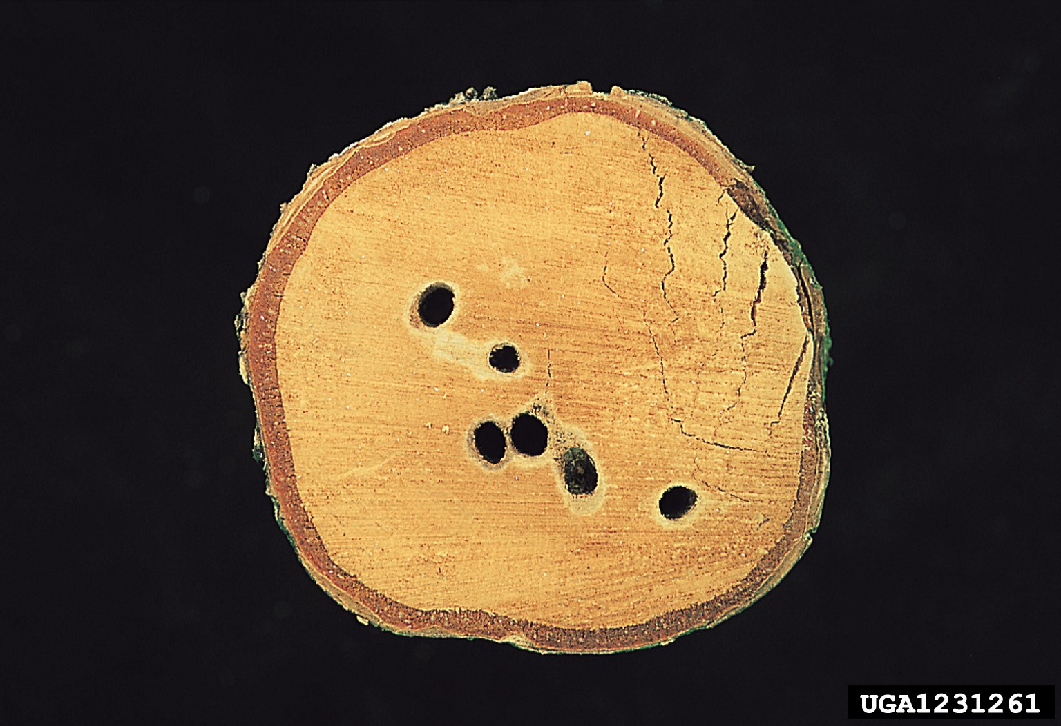 Synanthedon spechiformis damage